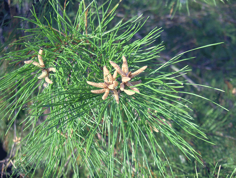 Sand Pine foliage and pollen cones. Florida.